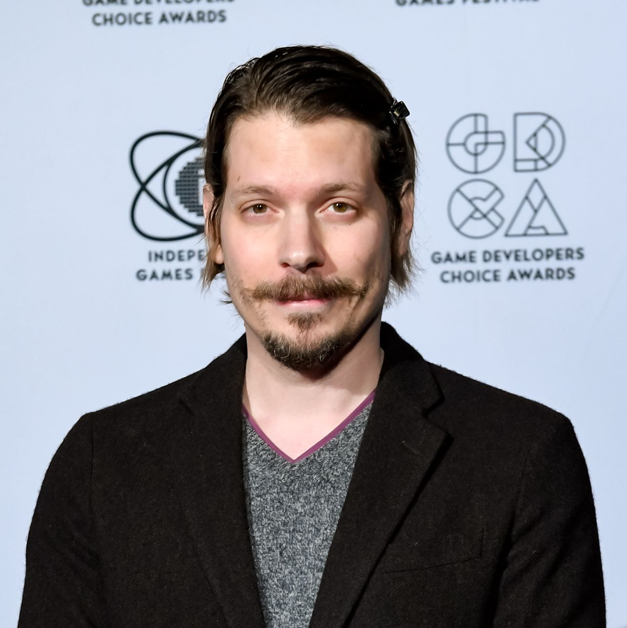 Lucas Pope at the Game Developer Choice Awards during the Game Developers Conference 2019